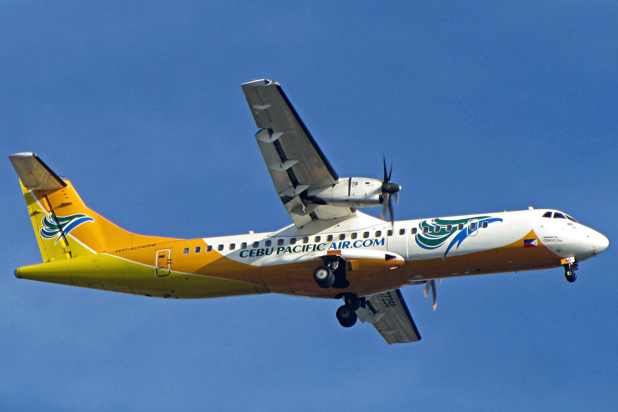 RP-C7250 arrives at the Francisco Bangoy International Airport from Cagayan de Oro.